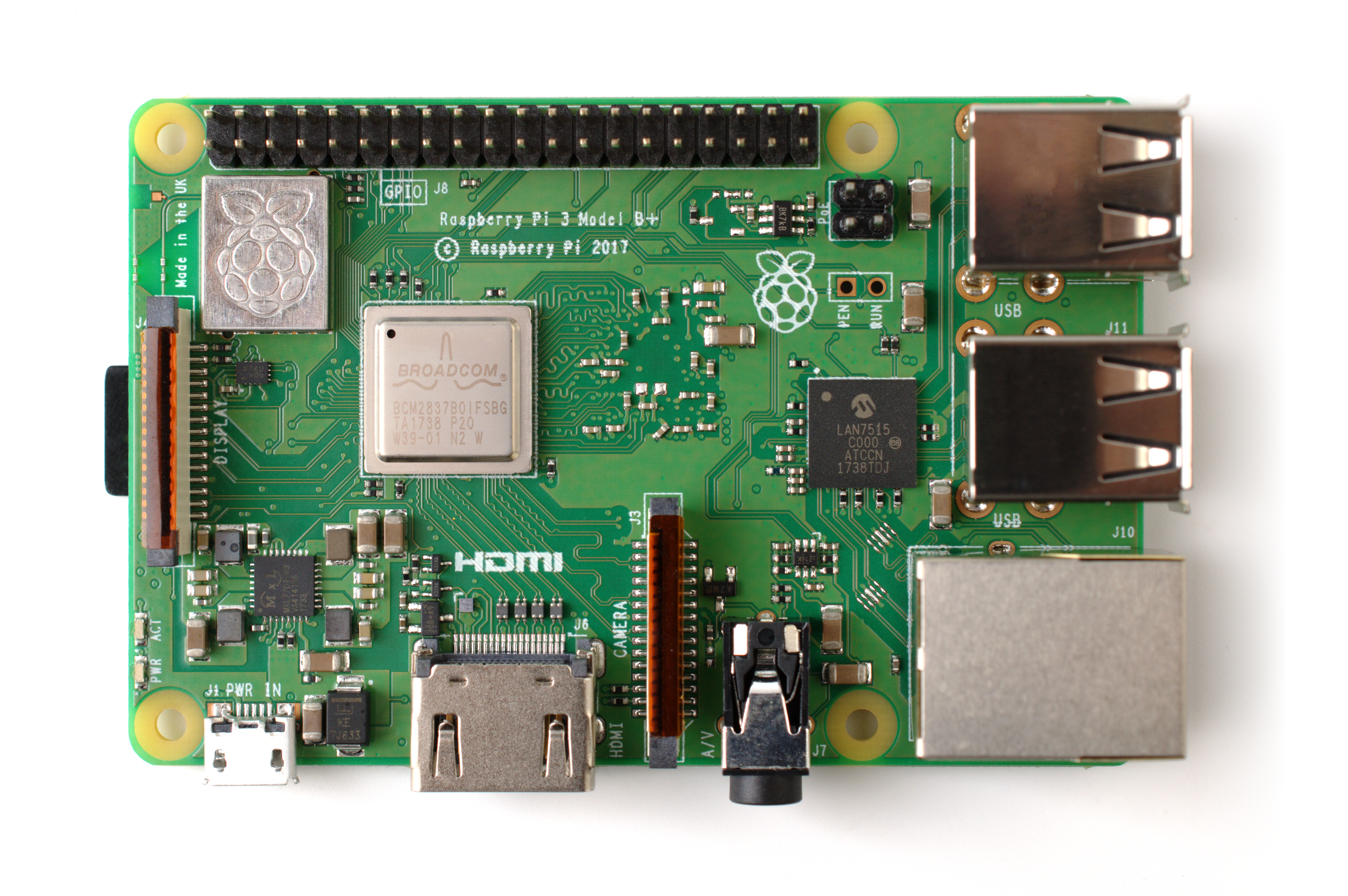 Raspberry Pi 3 B+ single-board computer, supplied as a press sample by the Raspberry Pi Foundation.